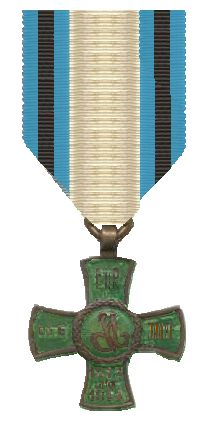 Kreuz 1813 - 1814 Bayern